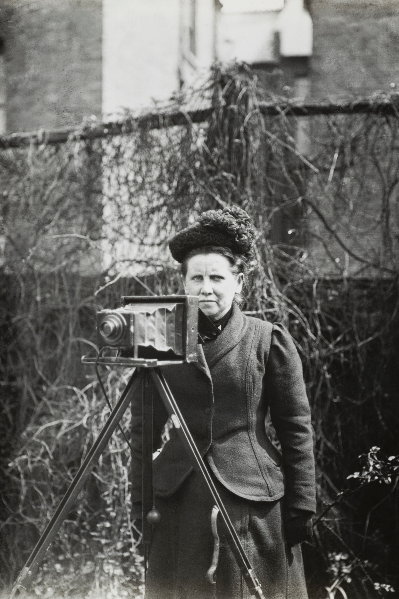 Christina Broom (née Livingston 28 December 1862 – 5 June 1939) was a Scottish photographer, credited as "the UK's first female press photographer". Guess at 1910 for date